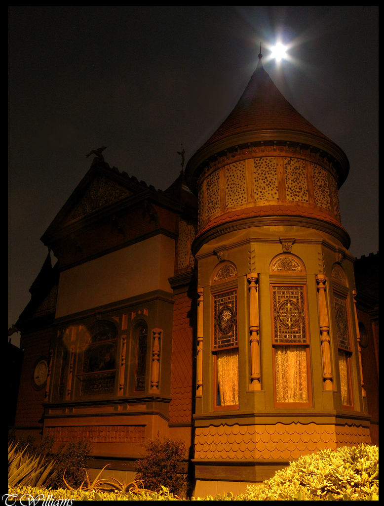 The "Villa Montezuma" in San Diego (built 1887-88)